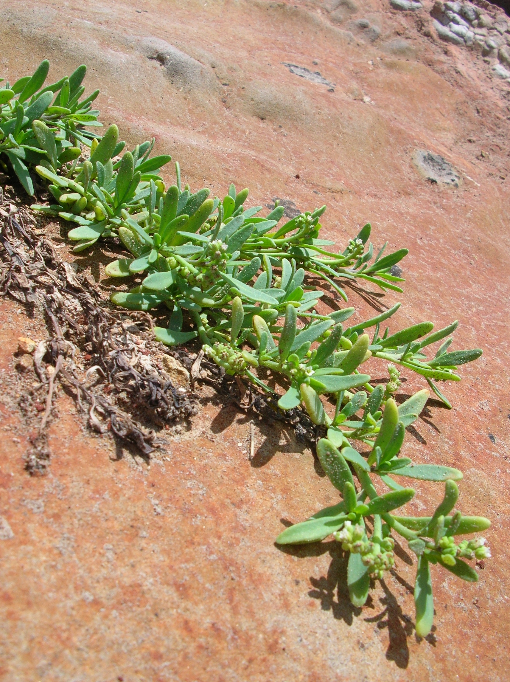 Heliotropium curassavicum (habit). Location: Maui, Mokeehia